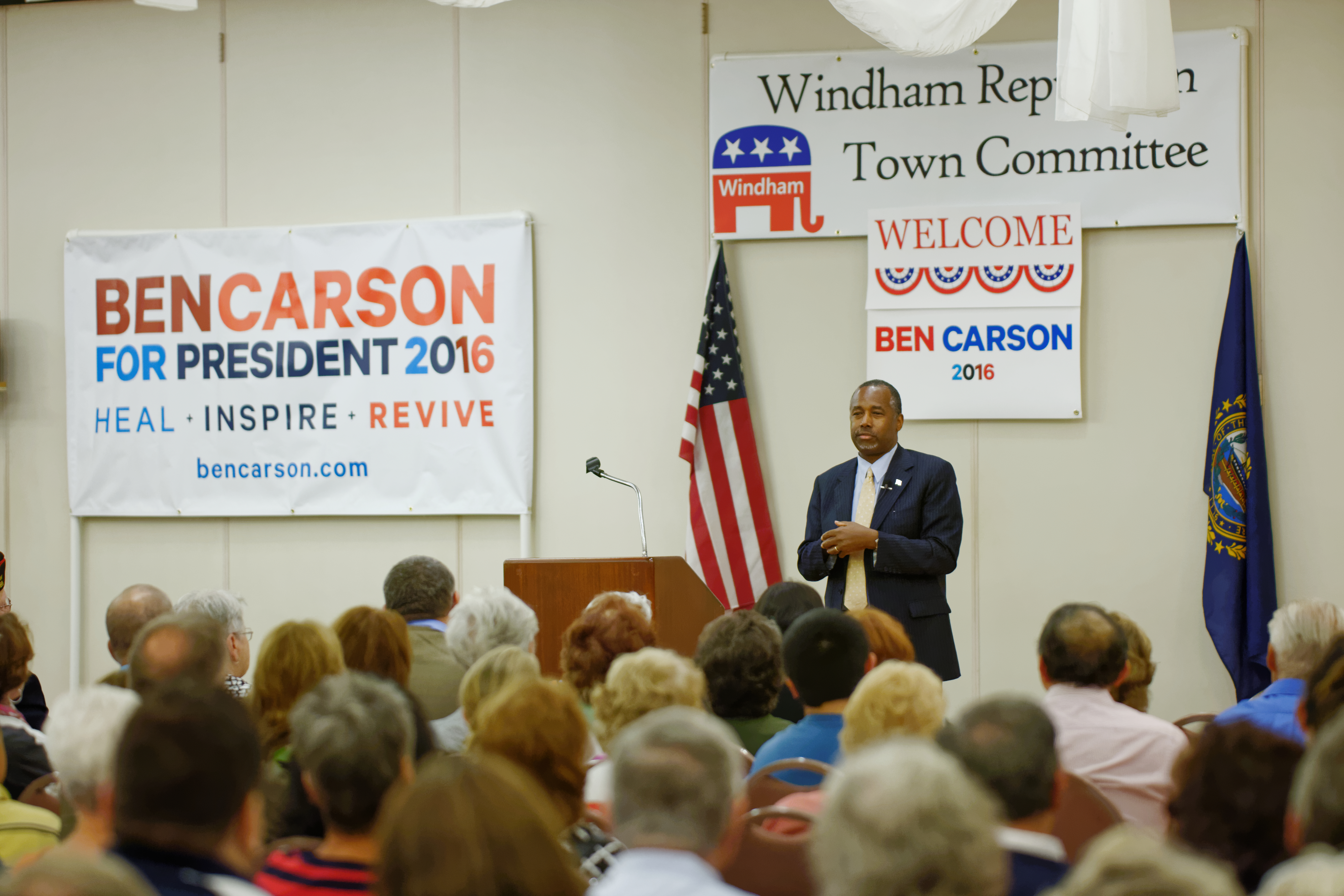 Benjamin Solomon "Ben" Carson, Sr. (born September 18, 1951) is an American author, political pundit, and retired Johns Hopkins neurosurgeon. On May 4, 2015, Carson announced he was running for the Republican nomination in the 2016 Presidential election at a rally in Detroit, his hometown. Carson was the first surgeon to successfully separate conjoined twins joined at the head. In 2008, he was awarded the Presidential Medal of Freedom by President George W. Bush. After delivering a widely publicized speech at the 2013 National Prayer Breakfast, he became a popular conservative figure in political media for his views on social and political issues. Ben Carson Visits New Hampshire on Thursday, August 13, 2015 Thursday, August 13, 2015 11:40 a.m. - 12:20 p.m. EDT Walk Through Puritan Backroom Restaurant 245 Hooksett Road Manchester, NH 1:10 p.m. - 2:35 p.m. EDT Hooksett Town Hall Meeting American Legion Post 37 5 Riverside Drive Hooksett, NH 5:30 p.m. - 6 p.m. EDT Londonderry Old Home Day 14th Annual Kidz Night Londonderry Town Common Londonderry, NH 7:15 p.m. - 8:45 p.m. EDT Windham Town Hall Meeting Castleton Banquet and Conference Center 92 Indian Rock Road Windham, NH